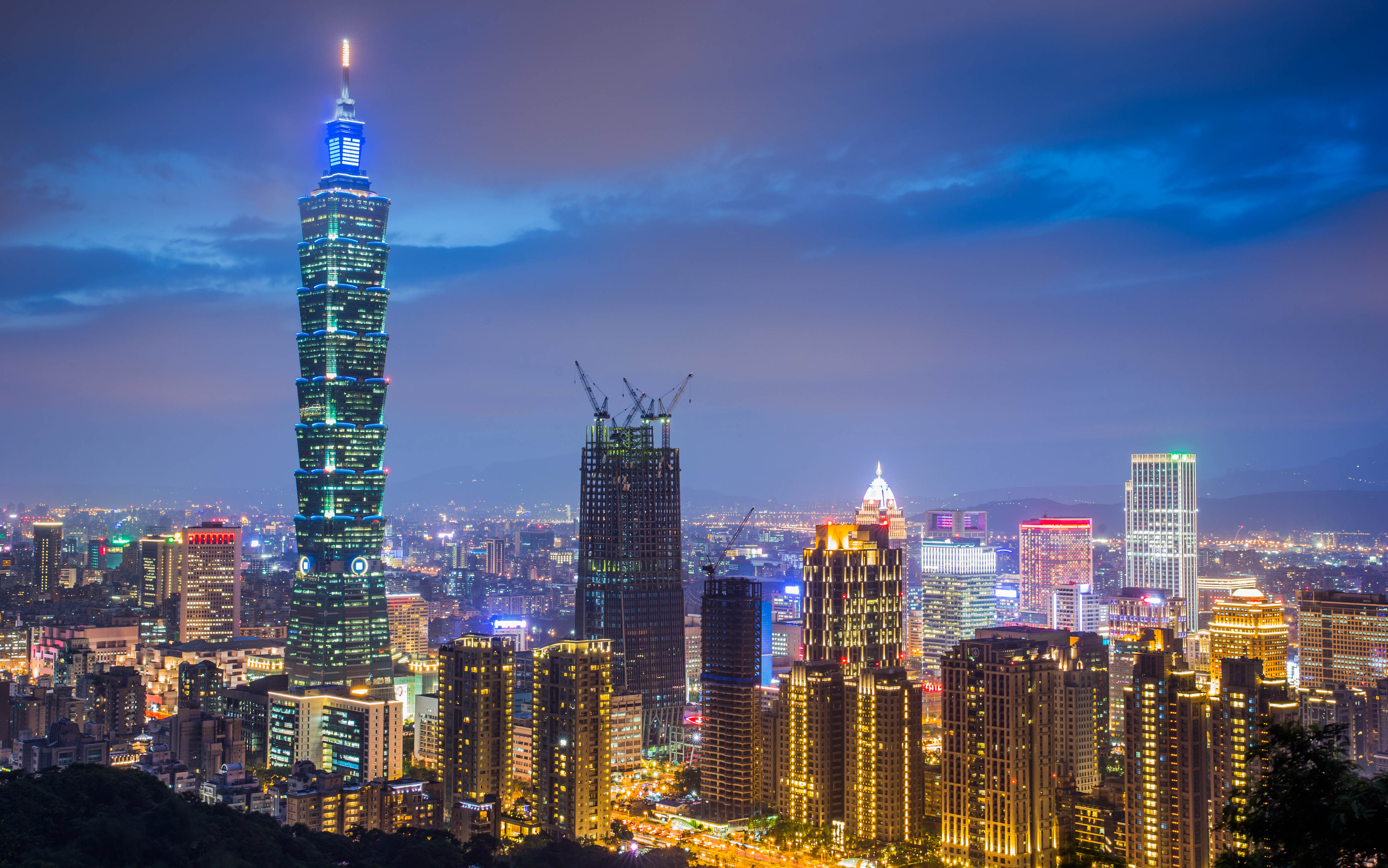 Skyline of Xinyi District, Taipei, Taiwan from Elephant Mountain